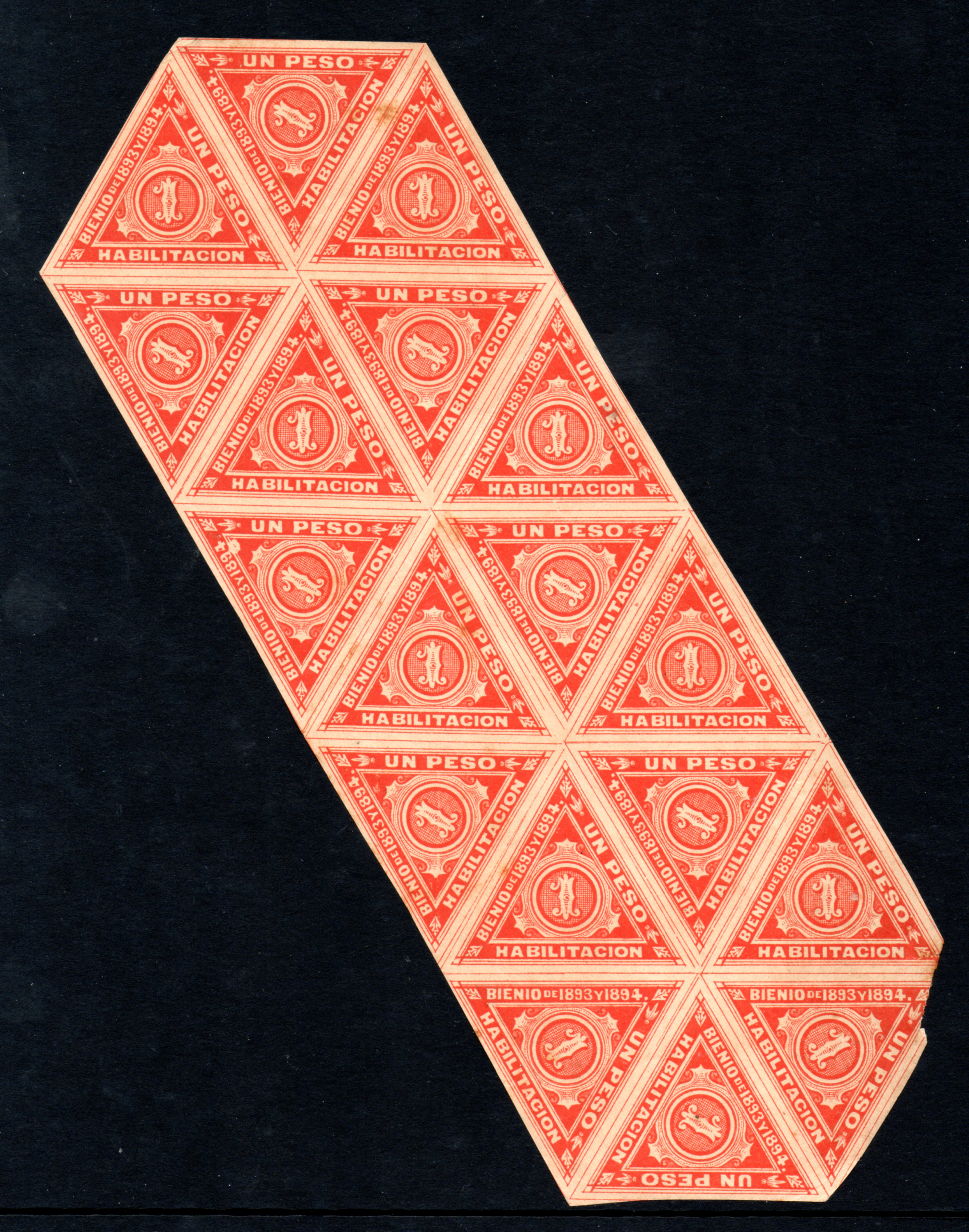 1893 1 Peso revenue stamp of Colombia in large block. Catalogue: F9